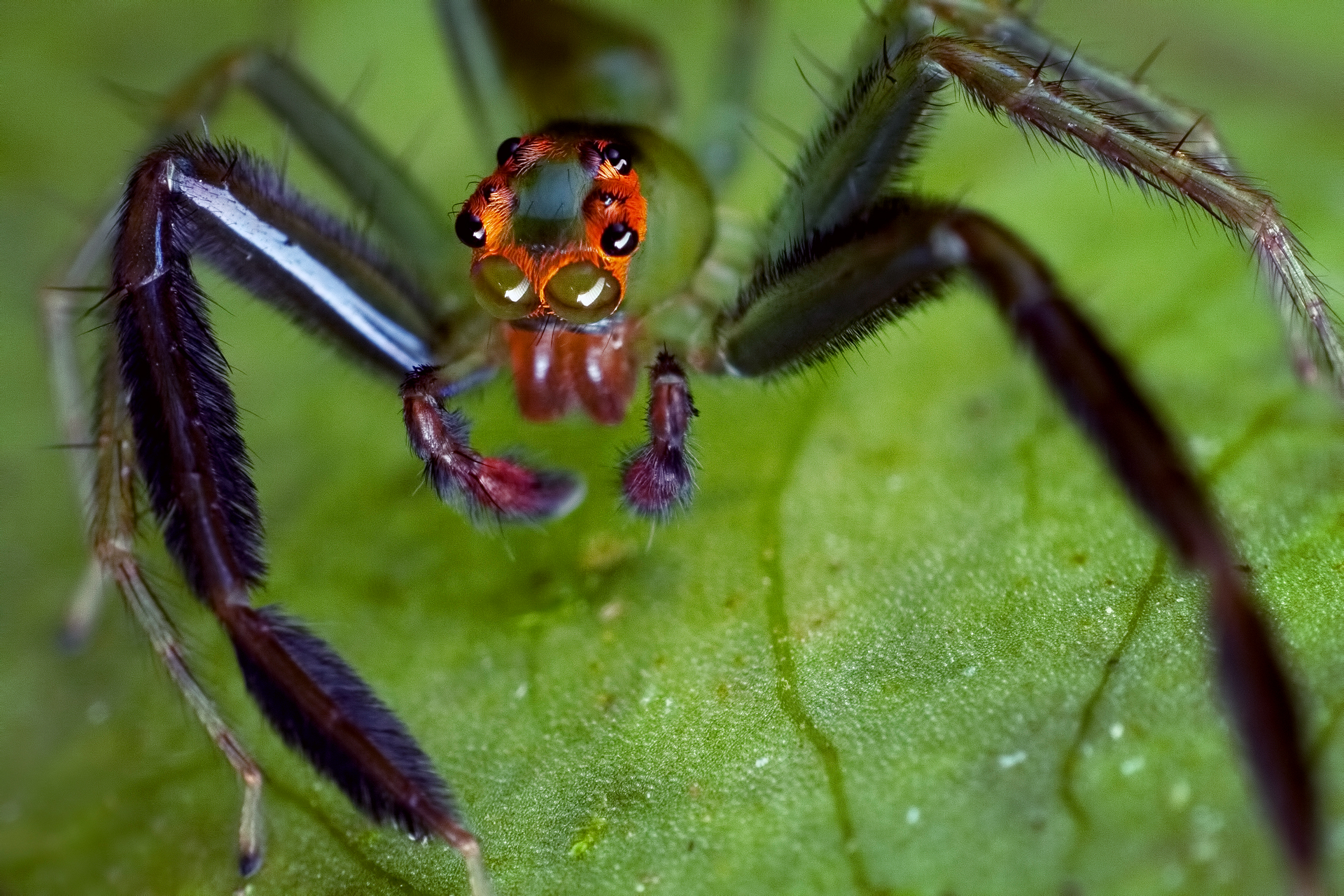 Green jumping spider with hairy legs (male), in Intervales State Park, Brazil.